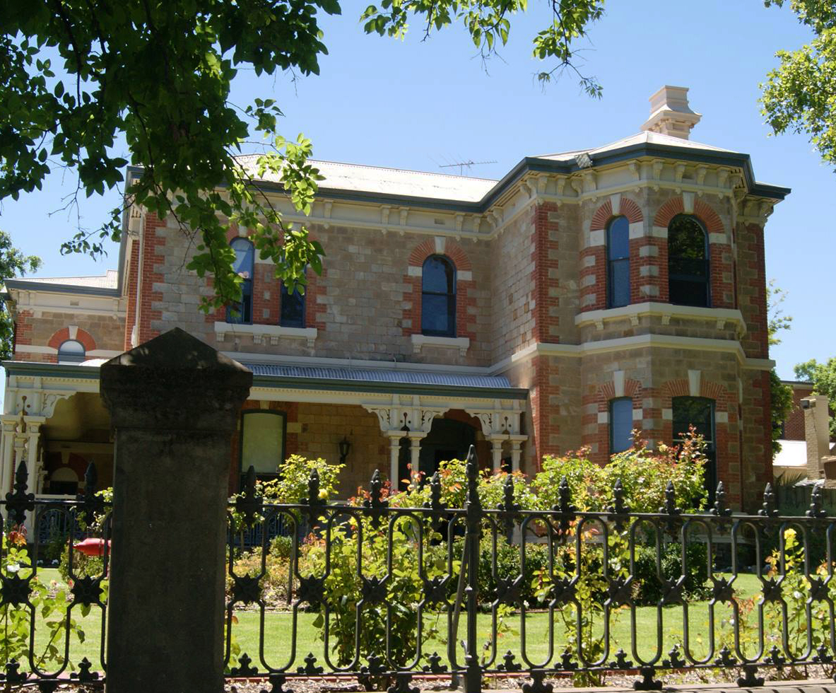 The exterior and gardens of St. Mark's College (University of Adelaide), South Australia.